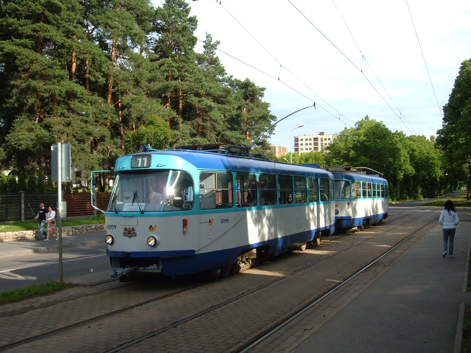 11th tram route, Kokneses prospekts, Mežaparks